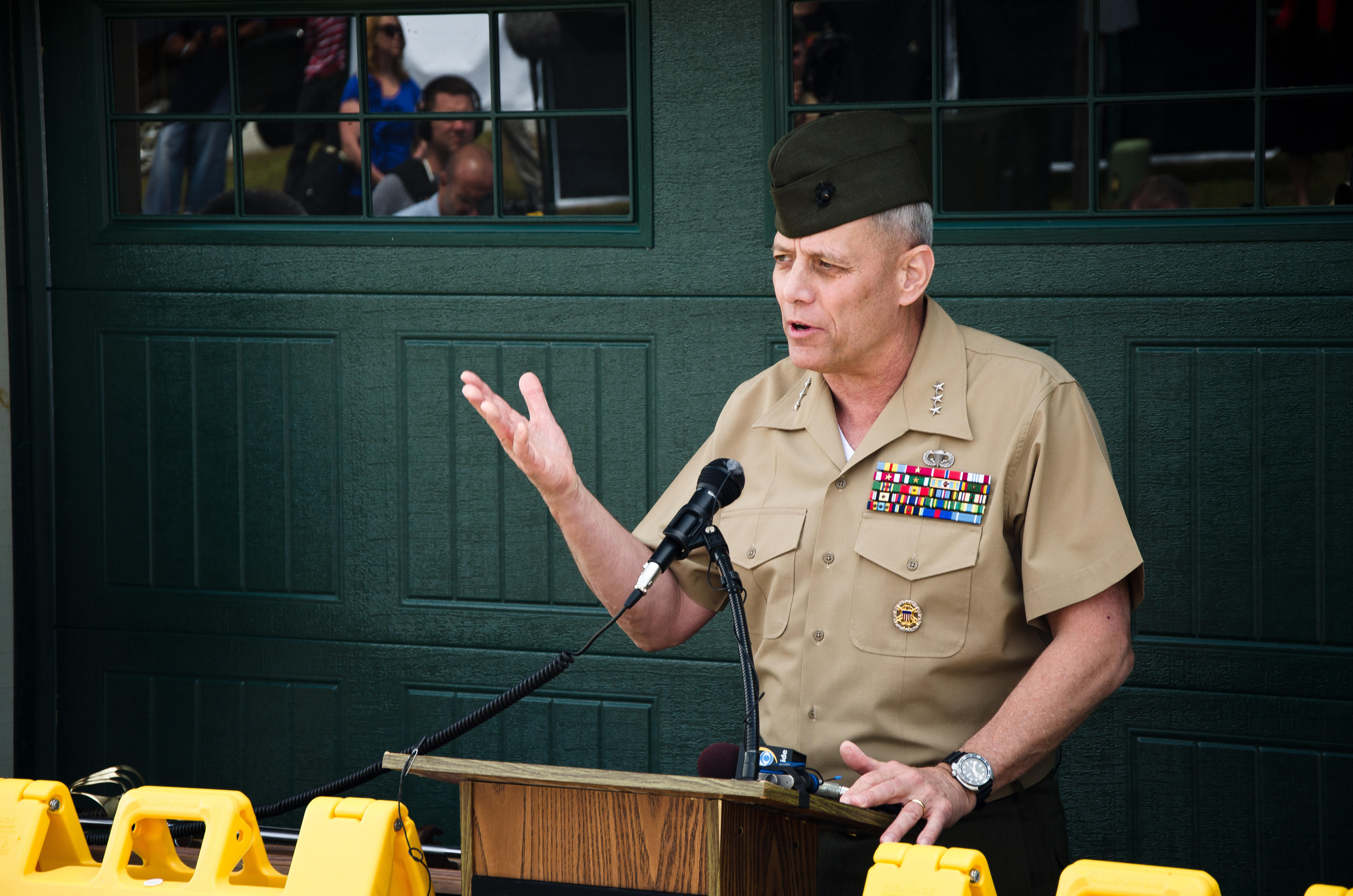 Lieutenant Gen. John M. Paxton Jr., commanding general of II Marine Expeditionary Force, speaks during the dedication ceremony of retired Marine Staff Sergeant Vincent Gizzarelli's brand new house, Jacksonville, N.C., Apr. 28. The house was built using supplies and donations from local businesses and various veterans' groups. Gizzarelli was medically retired from the Marine Corps after suffering traumatic brain injury and shrapnel wounds from multiple IED blasts that he sustained on his second tour to Iraq.